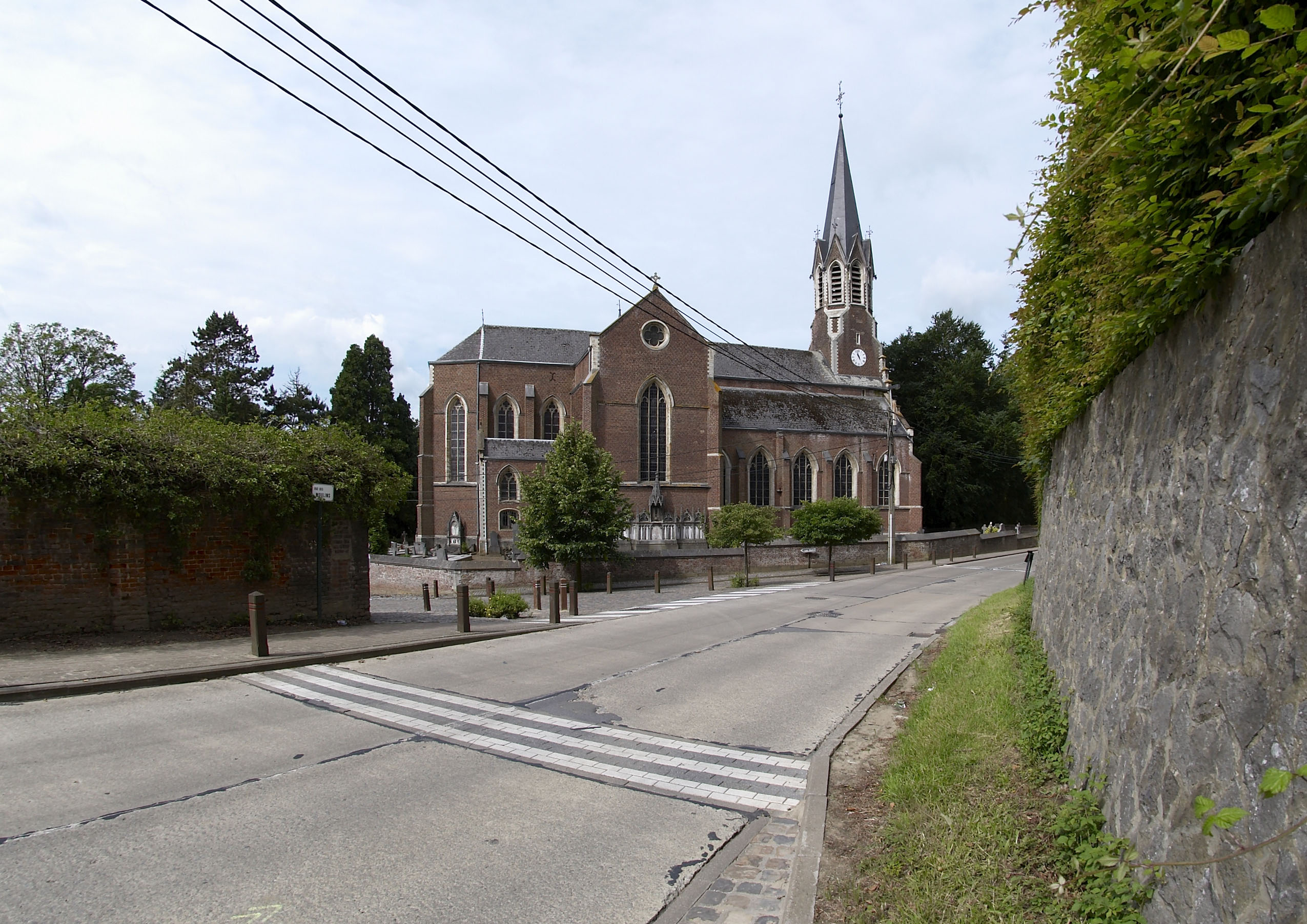 Church in Archennes